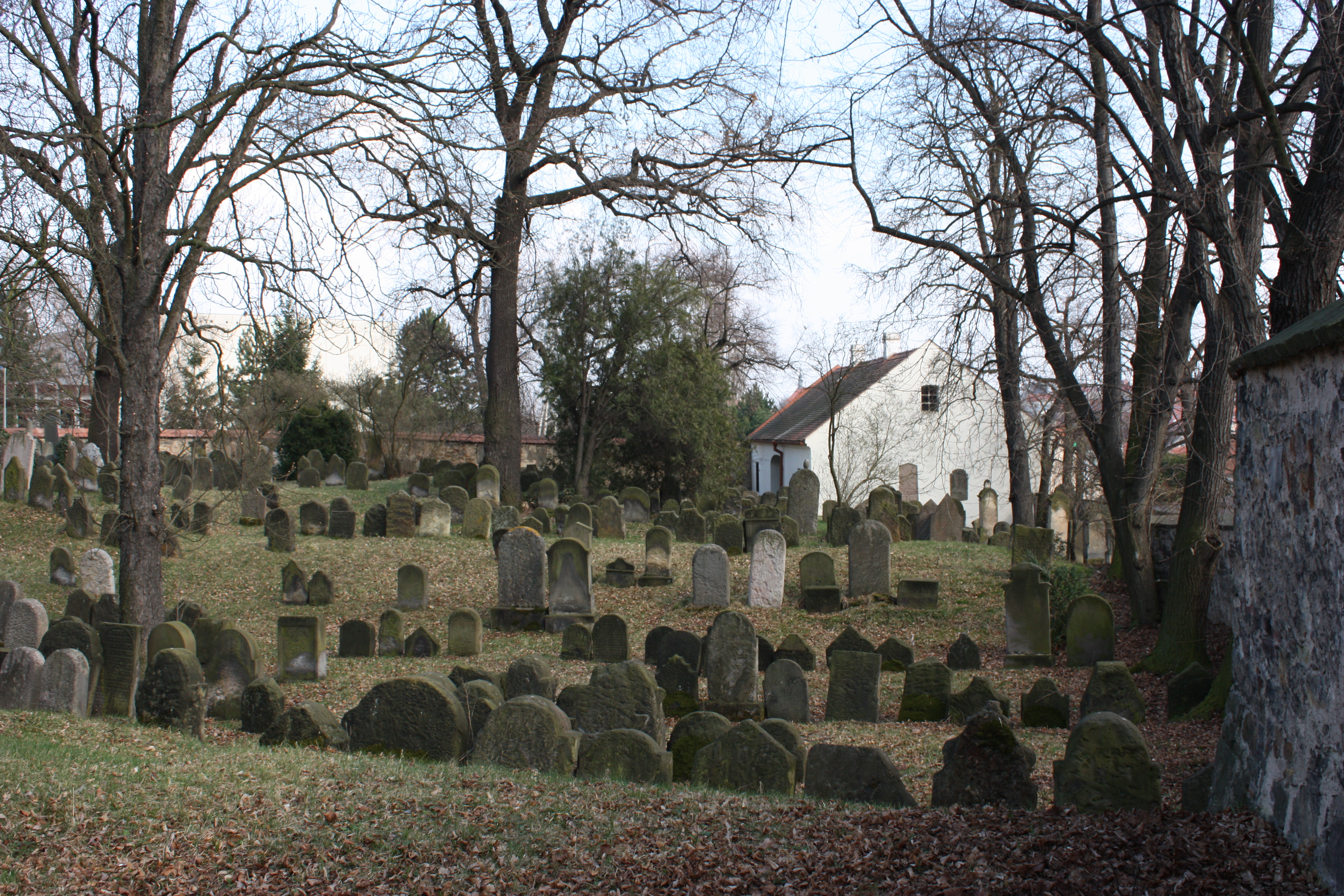 Jewish cemetery in Brandýs nad Labem, Czechia.